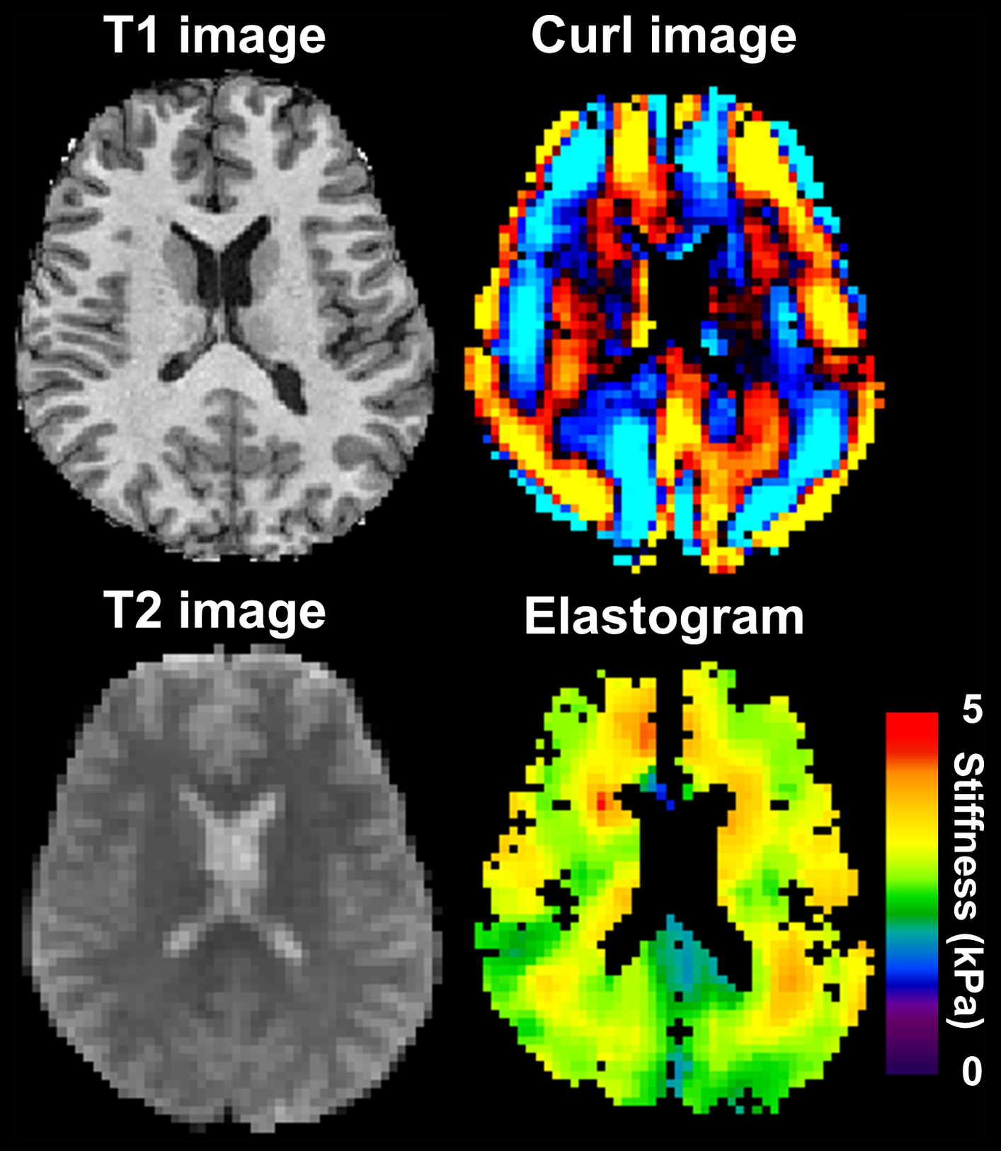 A T1 weighted image is shown in the top-left, and the corresponding T2 weighted magnitude image from the MRE data is shown in the bottom-left. The wave image is shown in the top-right panel, and the resulting elastogram is in the bottom-right panel.